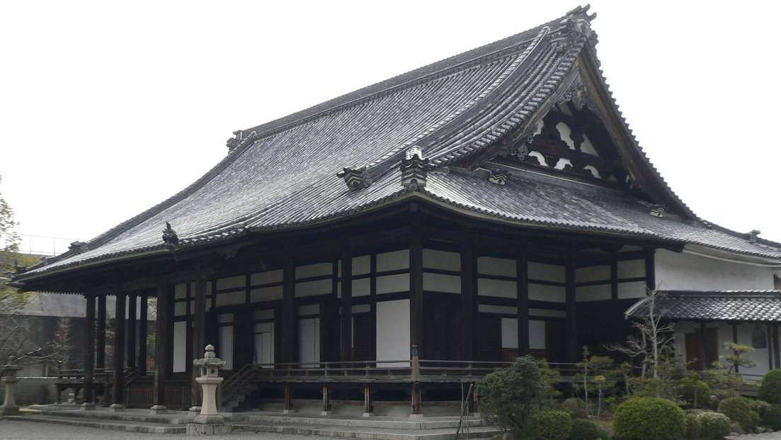 Goshoji(Temple) at Hyōgo Prefecture in Japan.